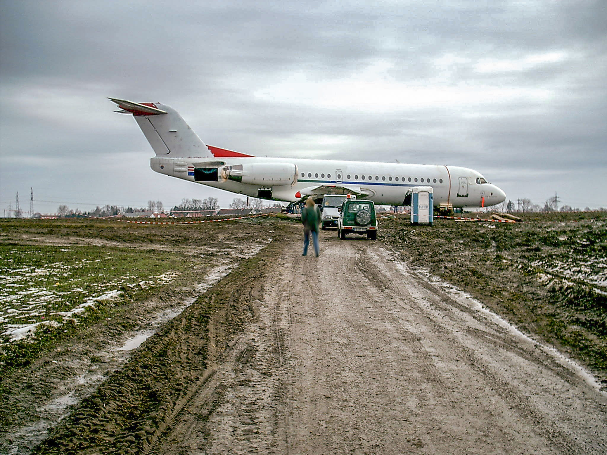 Fokker 70 (OE-LFO) by Austrian Airlines few days after crash landing in Reisen near Munich Airport; plane has already been moved to a nearby street; registration code and airline logos are covered